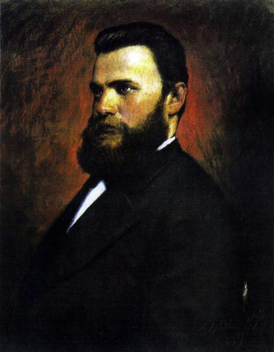 =Portrait of Carl Robert Jakobson by Ants Laikmaa.